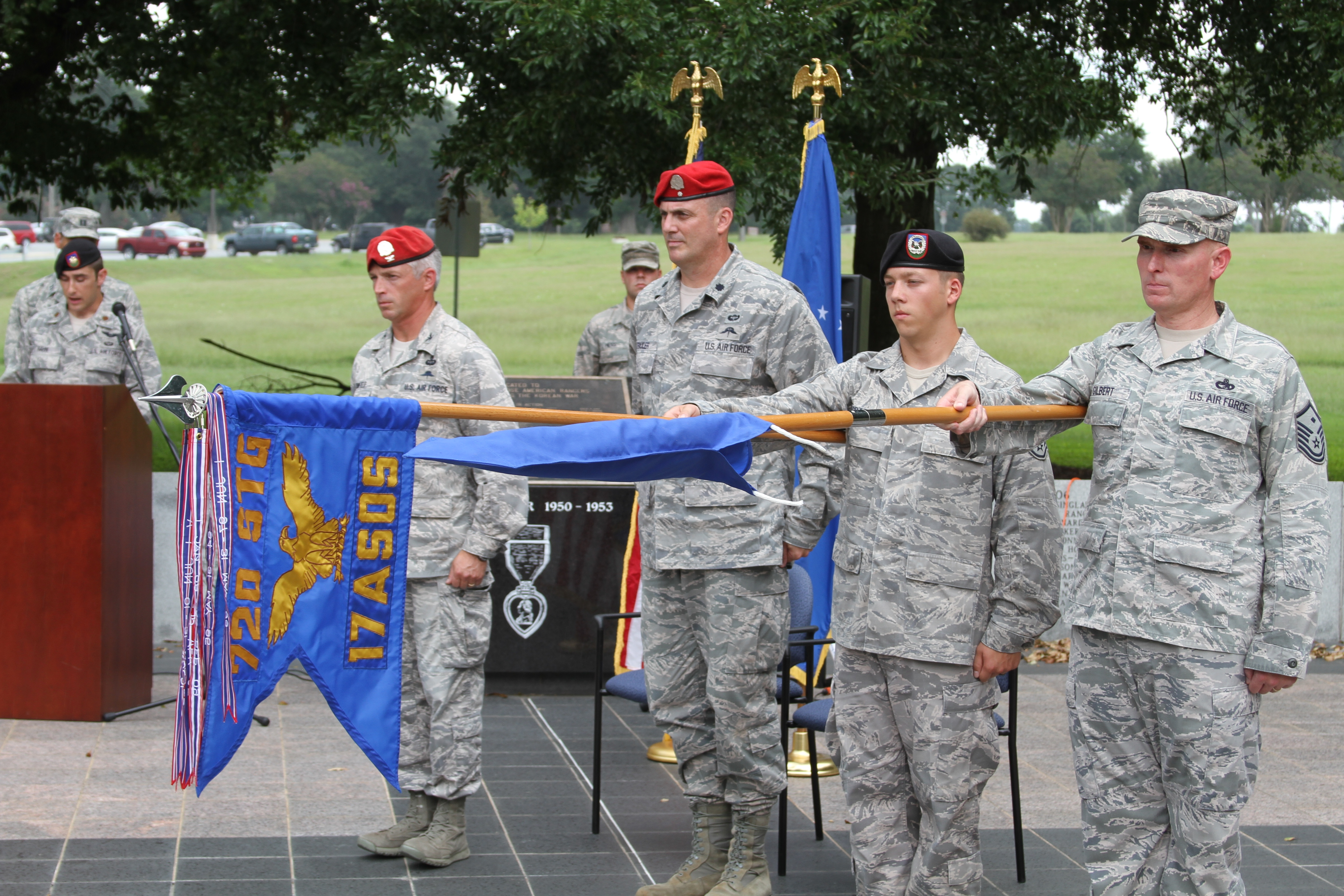 The 17th Air Support Operations Squadron was re-designated the 17th Special Tactics Squadron by Col. Robert Armfield, 24th Special Operations Wing commander, during a ceremony Aug. 8, 2013 at Fort Benning, Ga. The primary mission of the 17th STS is to provide special tactics Tactical Air Control Party Airmen to the Army's 75th Ranger Regiment for unconventional operations. (U.S. Air Force photo by Capt. Craig Savage)